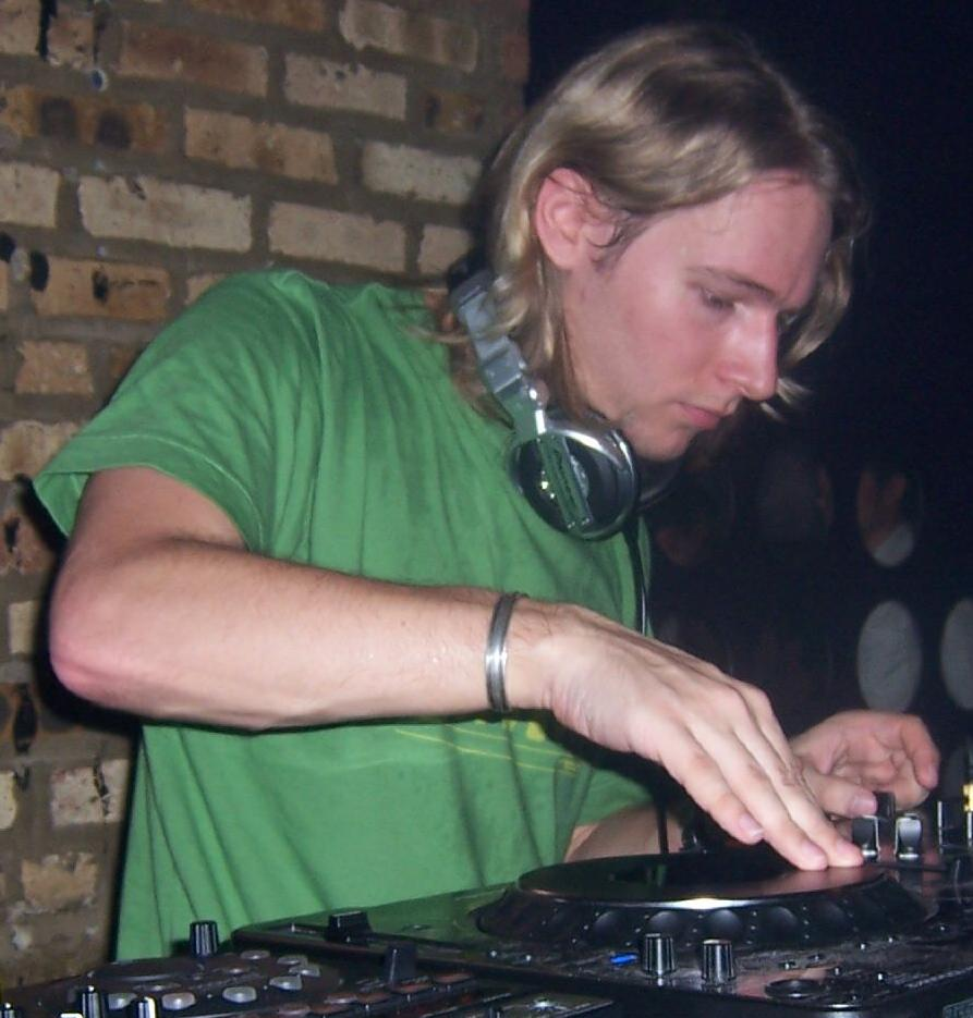 James Zabiela performing on September 9, 2006 in Chicago, Illinois, USA; Cropped by User:Wickethewok from Image:James Zabiela.jpg